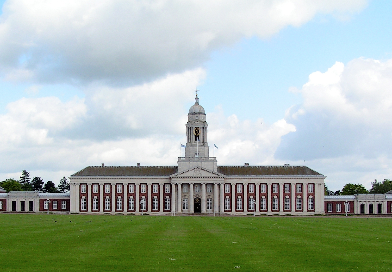 Photograph of the College Hall, the Royal Air Force College's Officer Mess. This photograph was taken by the uploader and it is released to the public domain.